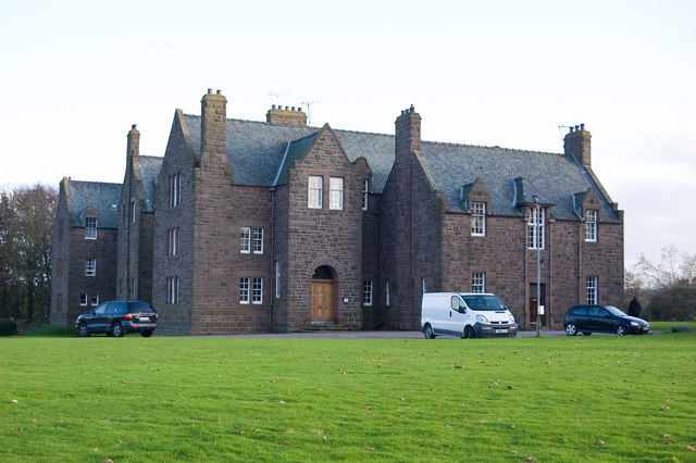 Strathcona House Built in 1929 and now part of the Rowett Institute.